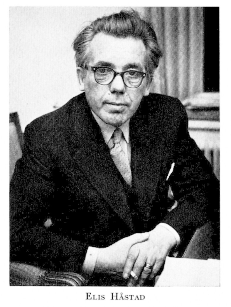 Picture of Elis Håstad, Swedsih professor and politician